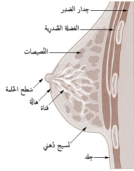 Drawing of a cross section of the breast of a human female.